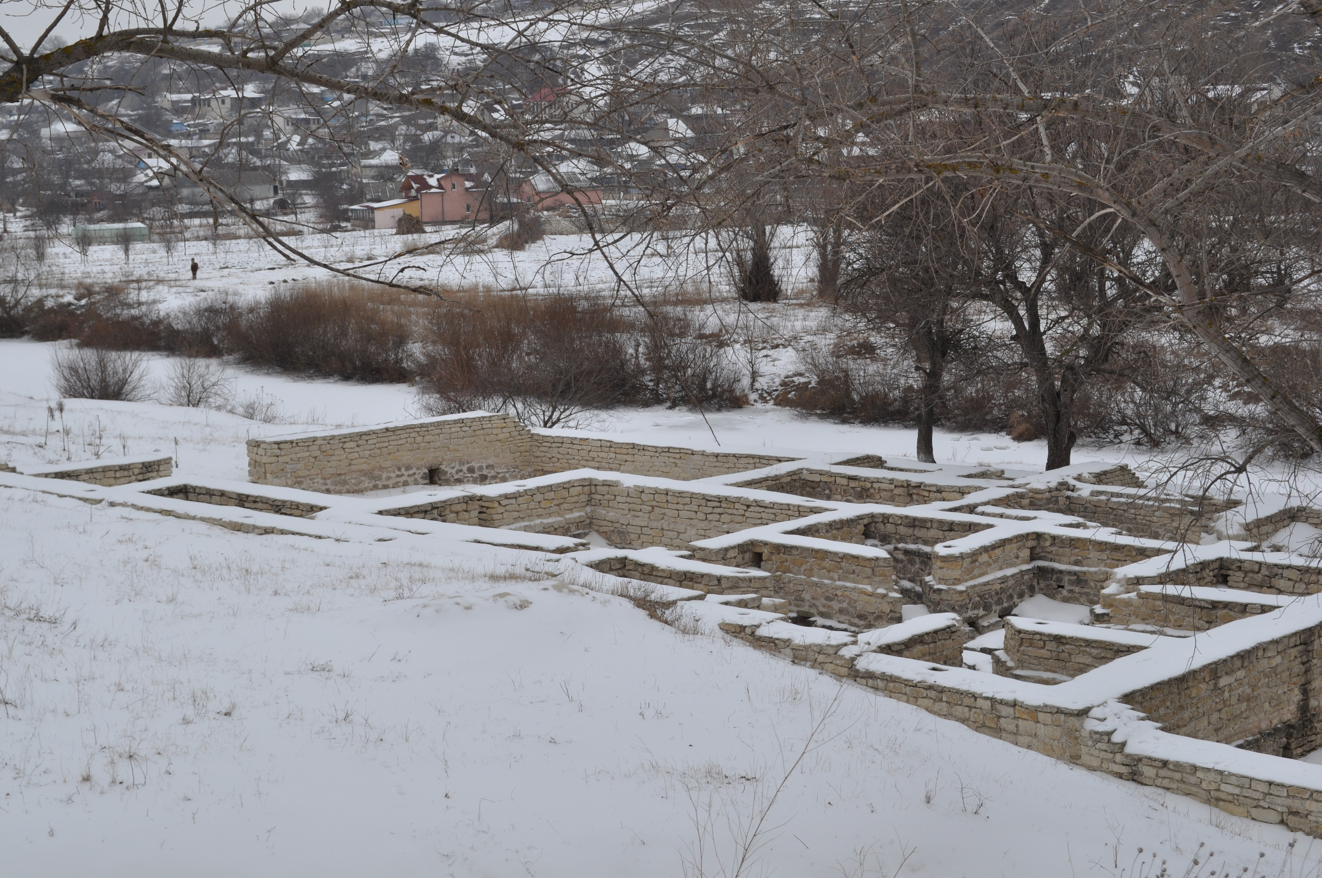 Ruins of an old Golden Horde bath house in Orheiul Vechi